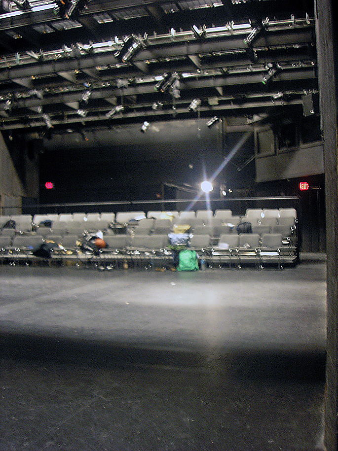 The Studio Theatre, a black box space, in the basement of the Cathedral of Learning at the University of Pittsburgh. The Studio Theatre serves as the home of the Friday Nite Improvs and the Pitt Repertory Theatre, among other groups, at the University.